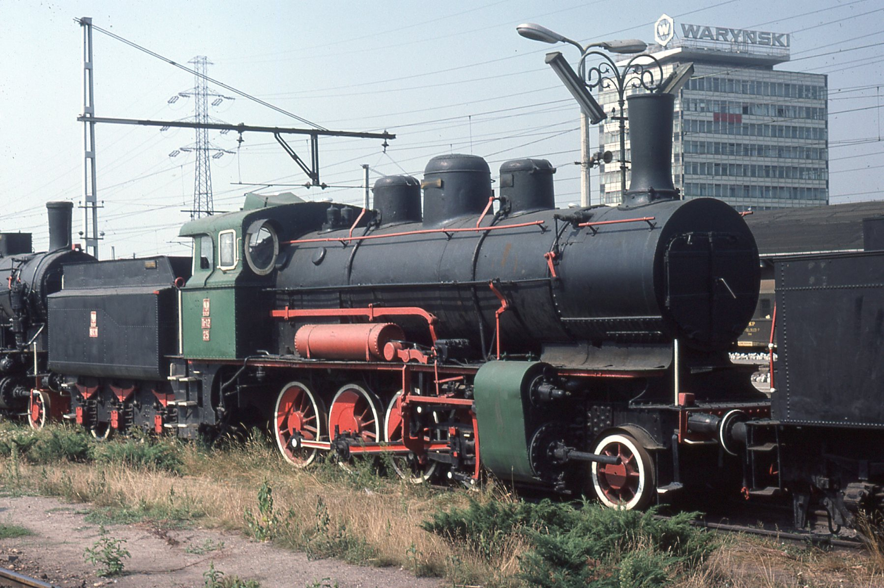 Tr12-25 2-8-0 locomotive of Polish State Railways (Austrian kkStB 270 class), Warsaw 1976. Currently it is in Chabówka Railway Museum